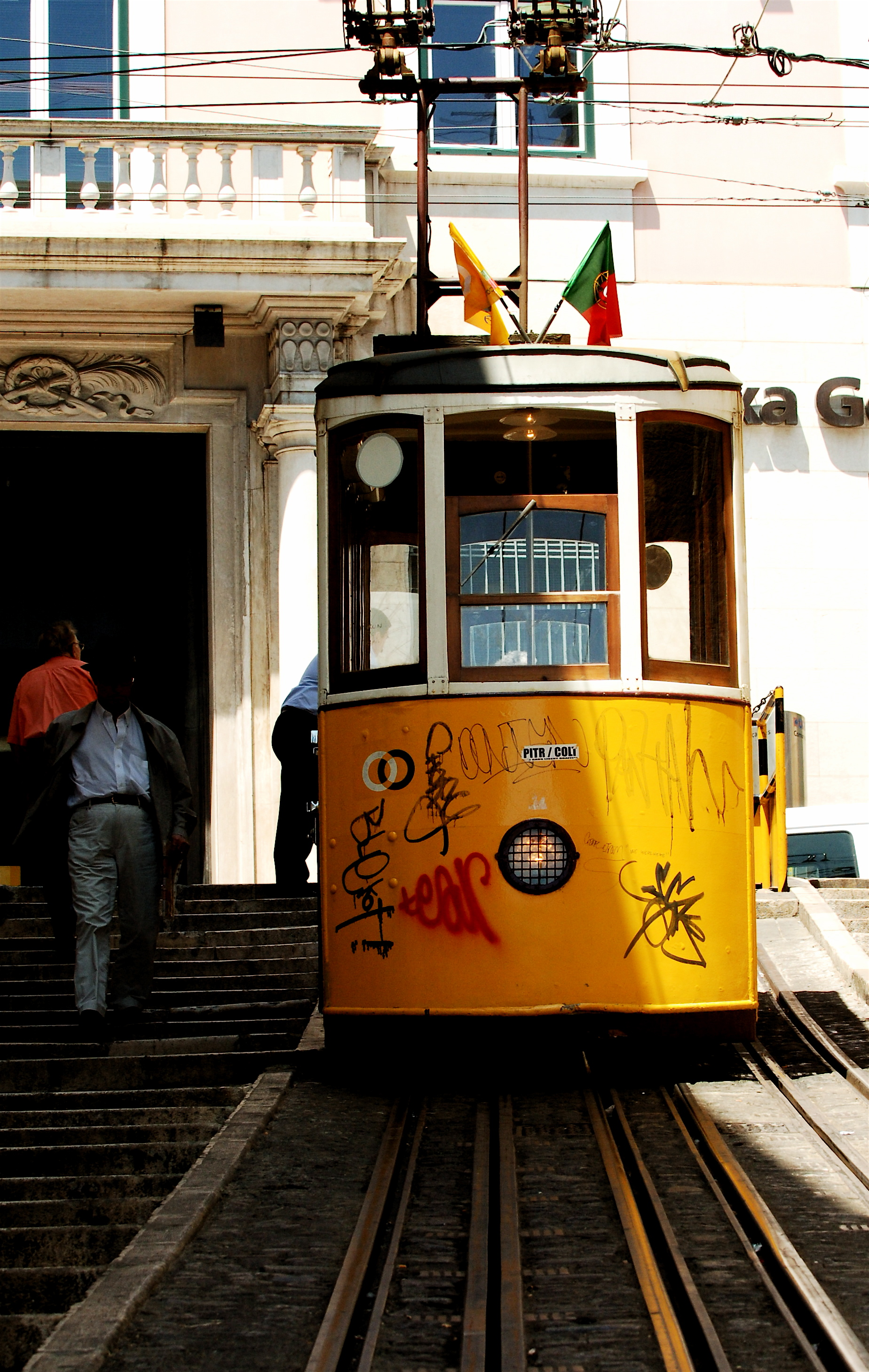 Bica`s Lift in Lisbon, Portugal.